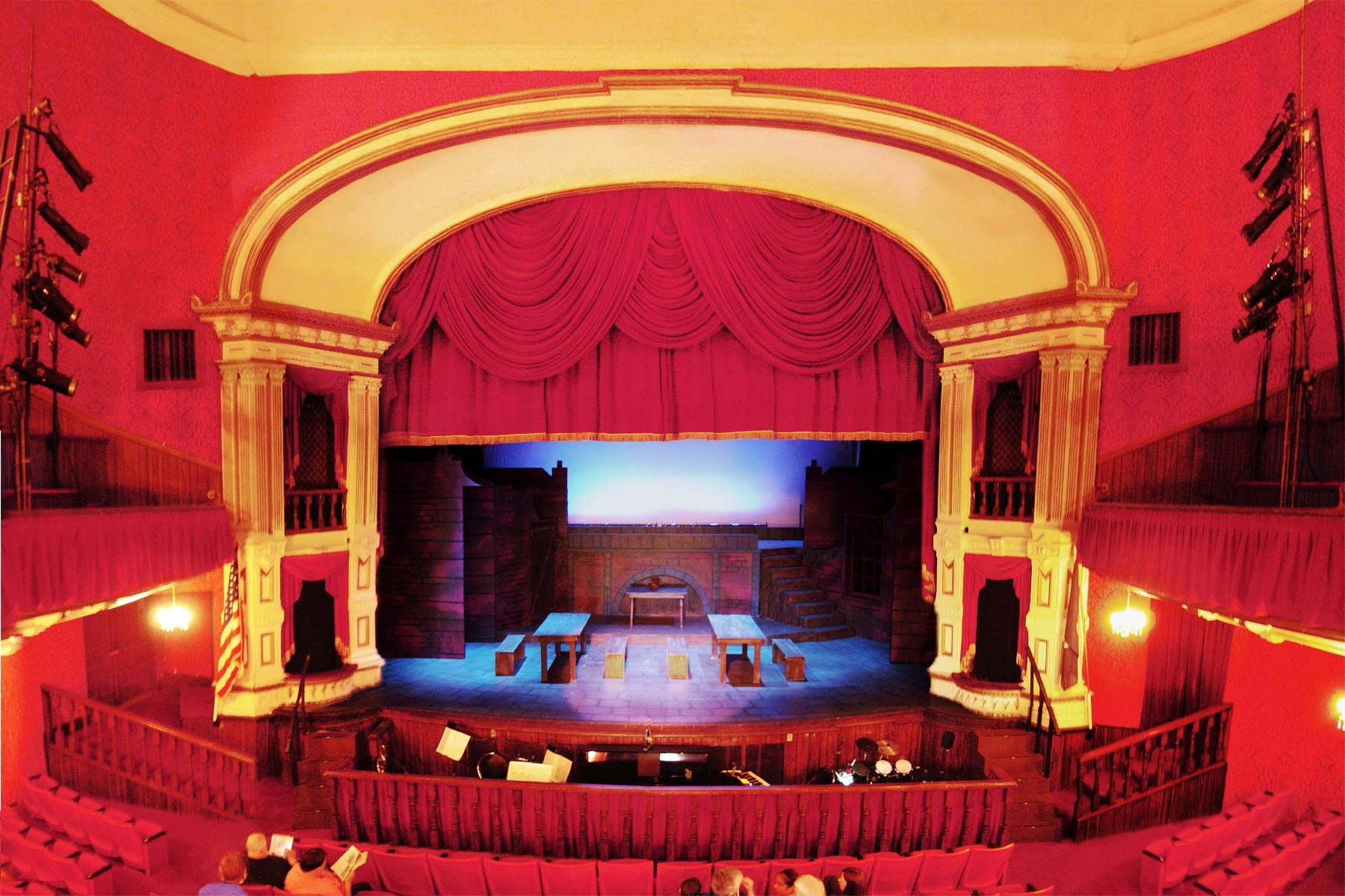 Tibbits Opera House stage and proscenium from balcony.